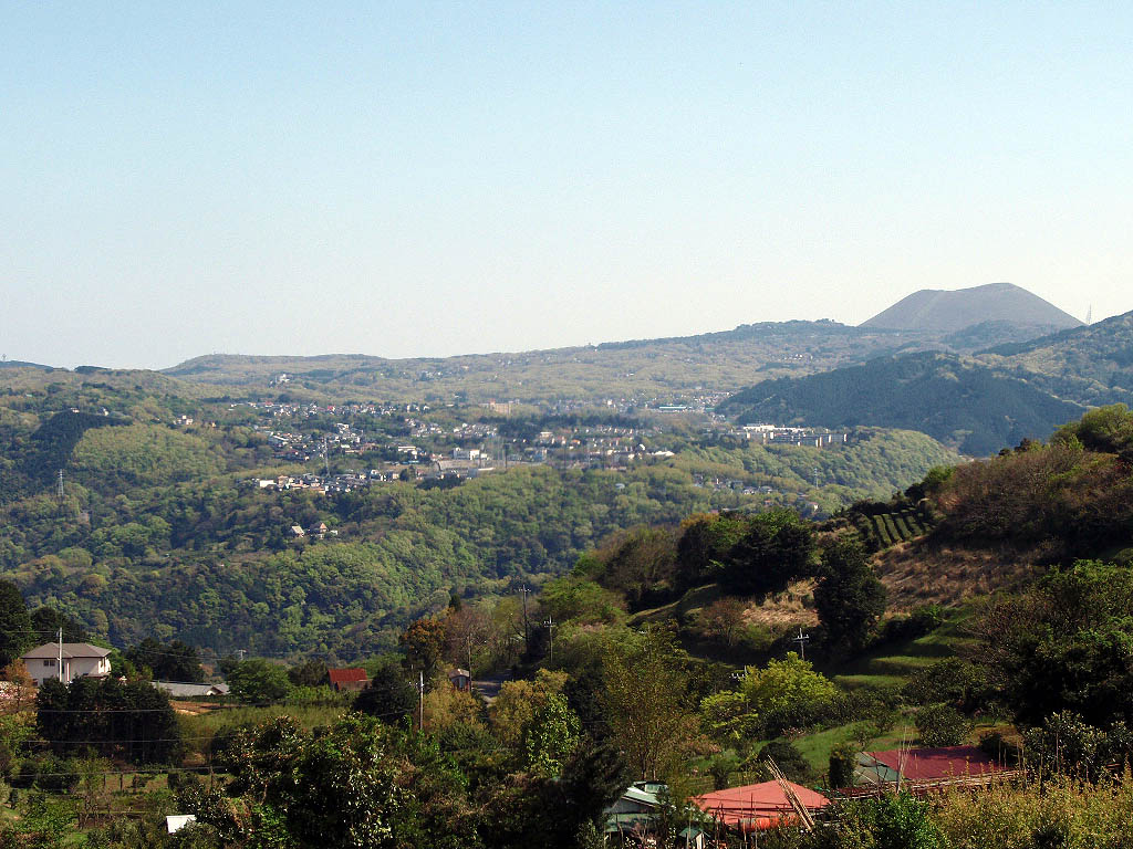 View of Ito in Shizuoka Prefecture, Japan. Mount Omuro volcano in the left.